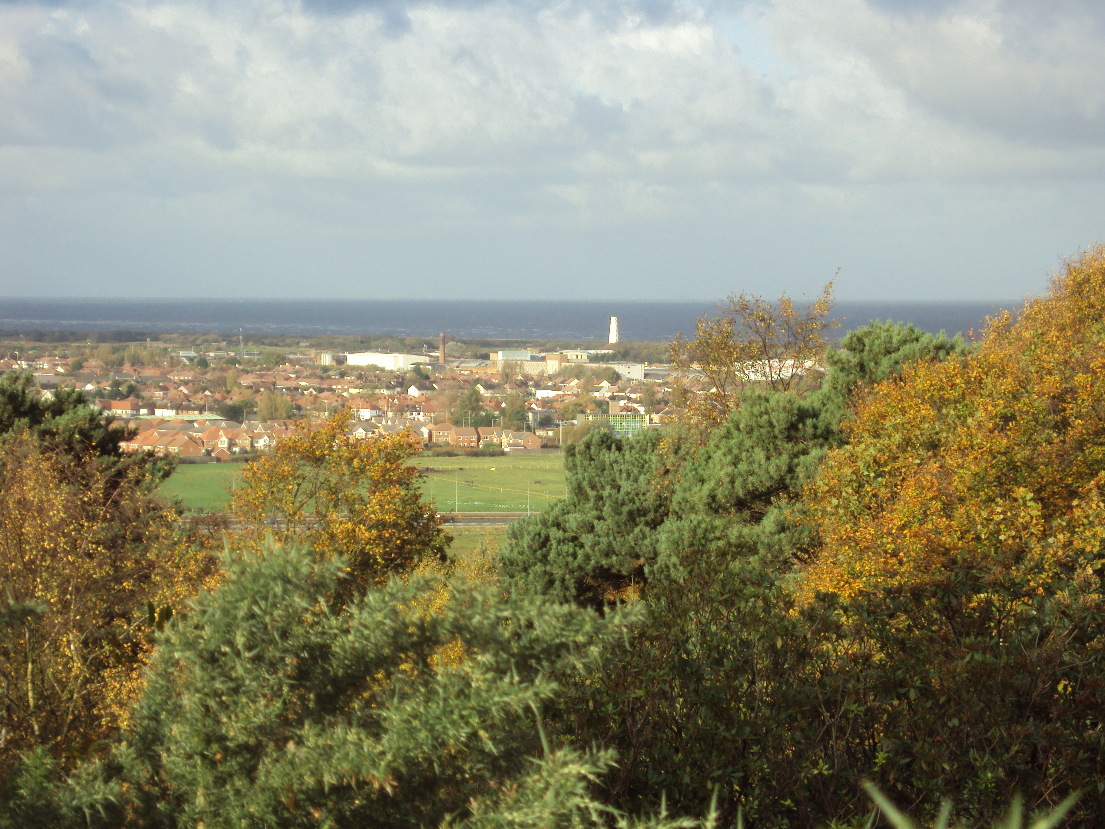 Looking towards Leasowe Lighthouse from Bidston Hill, Birkenhead, Wirral, Merseyside, England.